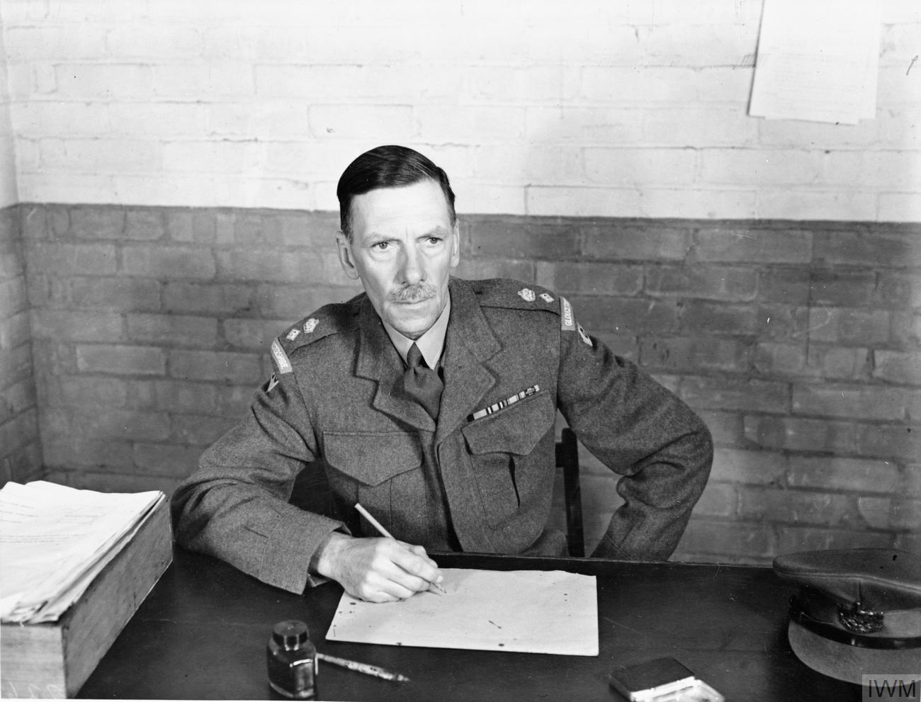 Photograph of Lieutenant Colonel J P Carne VC DSO, Commanding Officer of the 1st Battalion, Gloucestershire Regiment which stemmed the enemy attack at Imjin, 22-25 April 1951. He received the Victoria Cross for gallantry during this action.